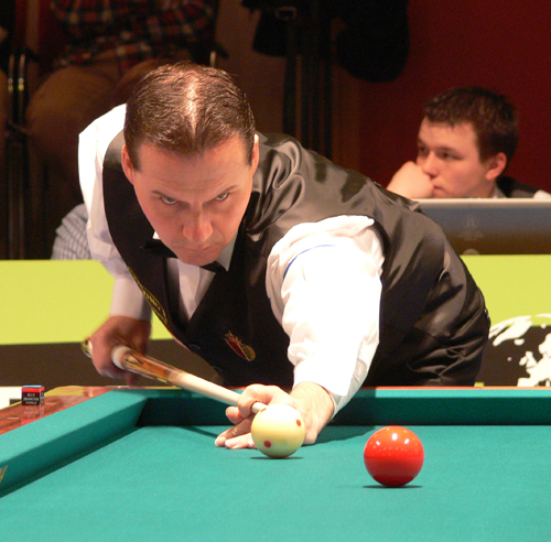 Belgian carom billiards player